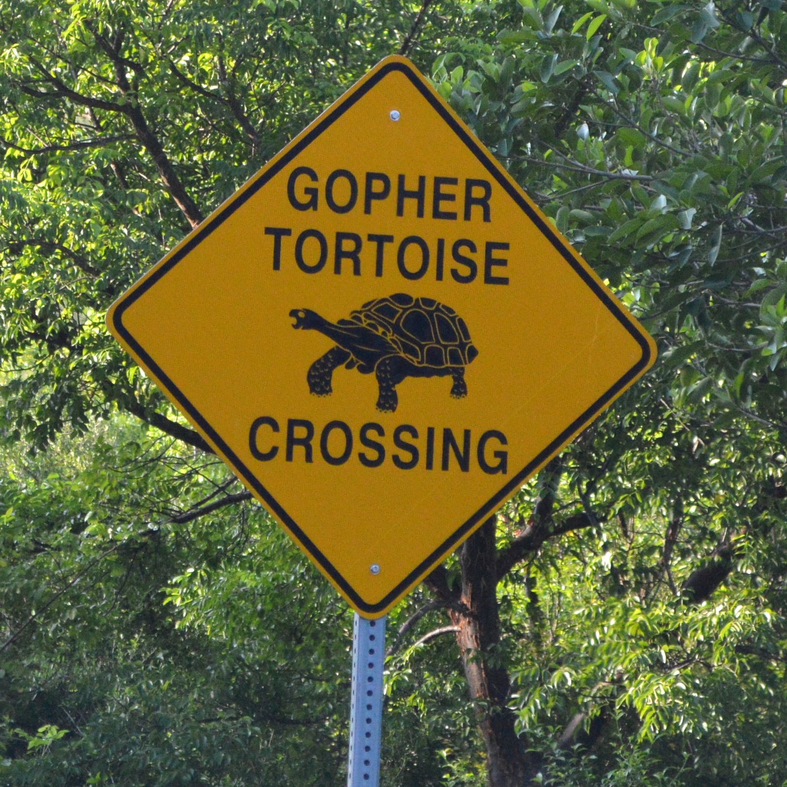 Gopher Tortoise Crossing - Road Sign in Sanibel Island, Florida, USA